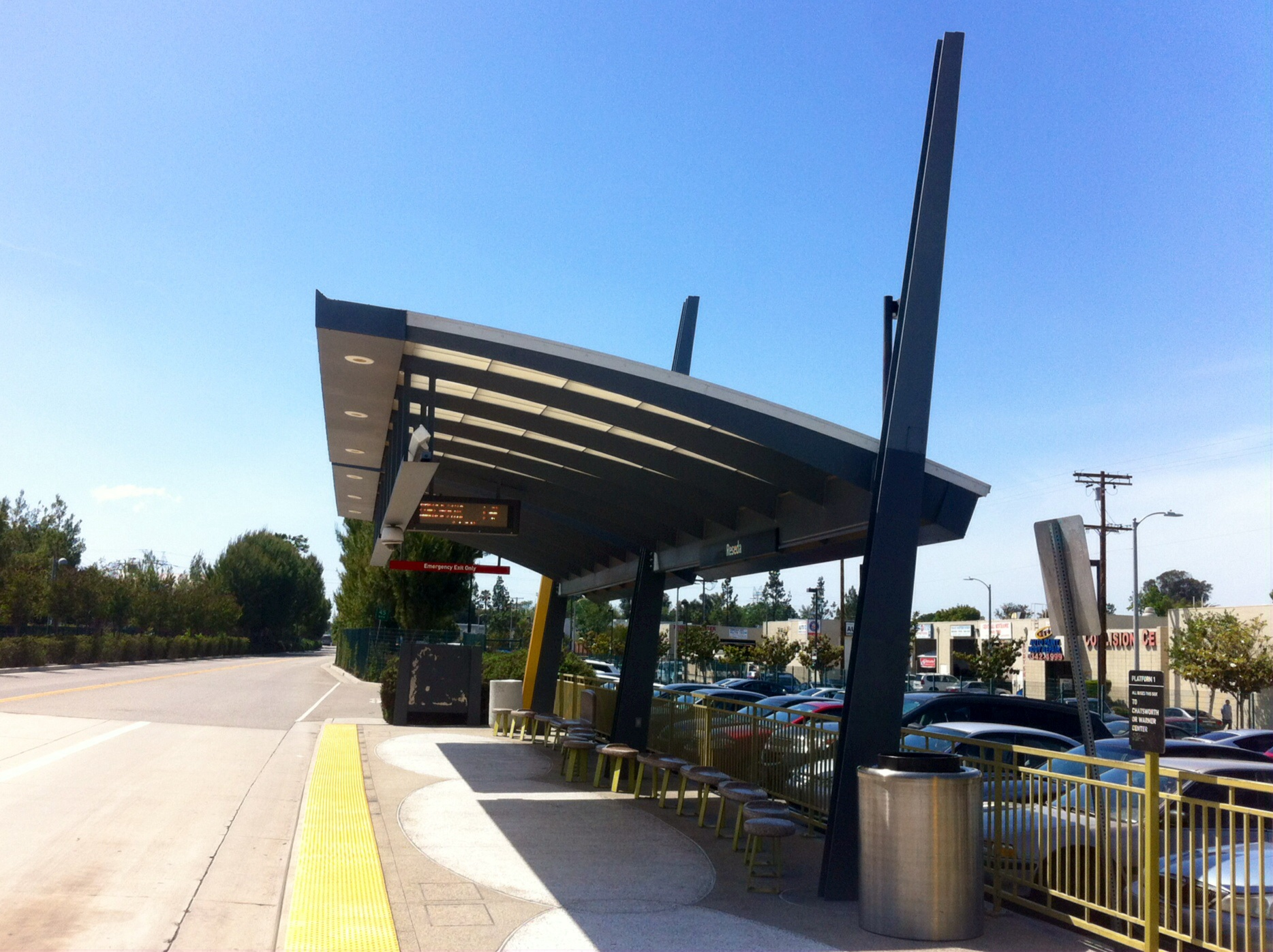 The platform view of Reseda Station.